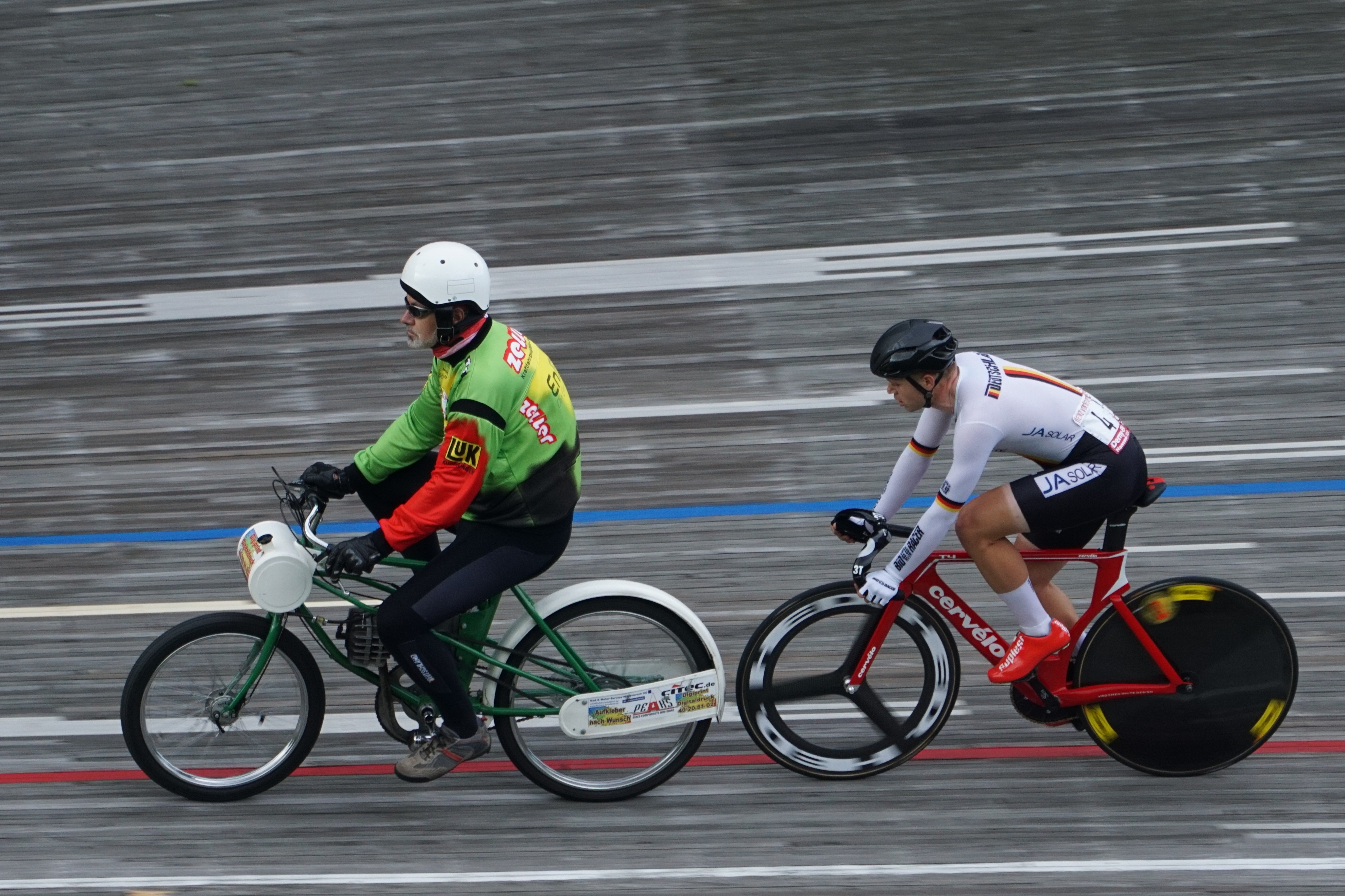 UEC Derny European Championships 2017 - Final, 120 laps / 40 km, Rider: Achim Burkart (Germany), Pacer: Christian Ertel (Germany)